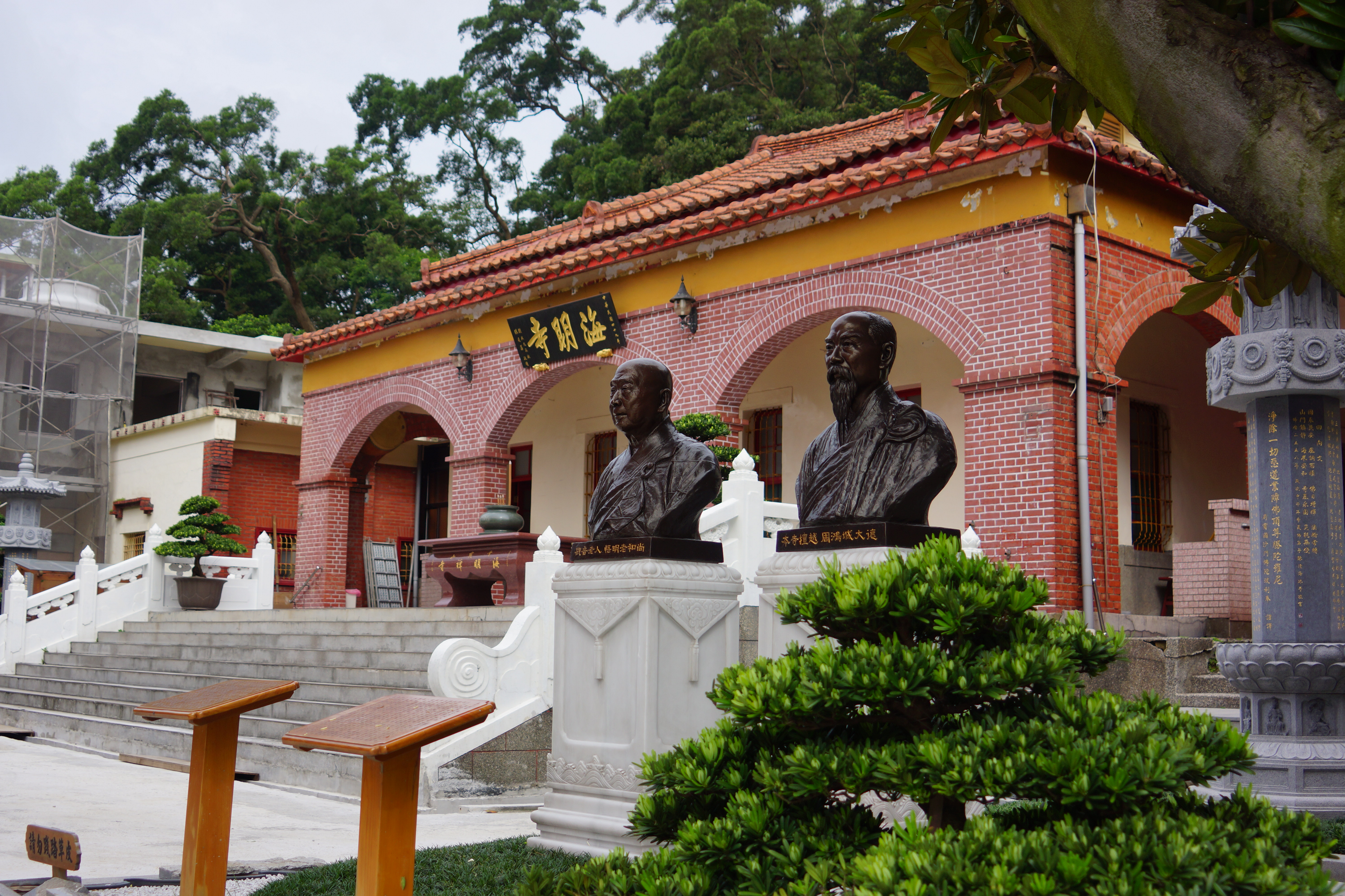 海明禪寺 Haiming Chan Monastery